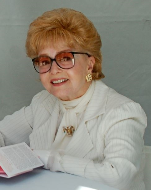 Debbie Reynolds at the LA Festival of Books.